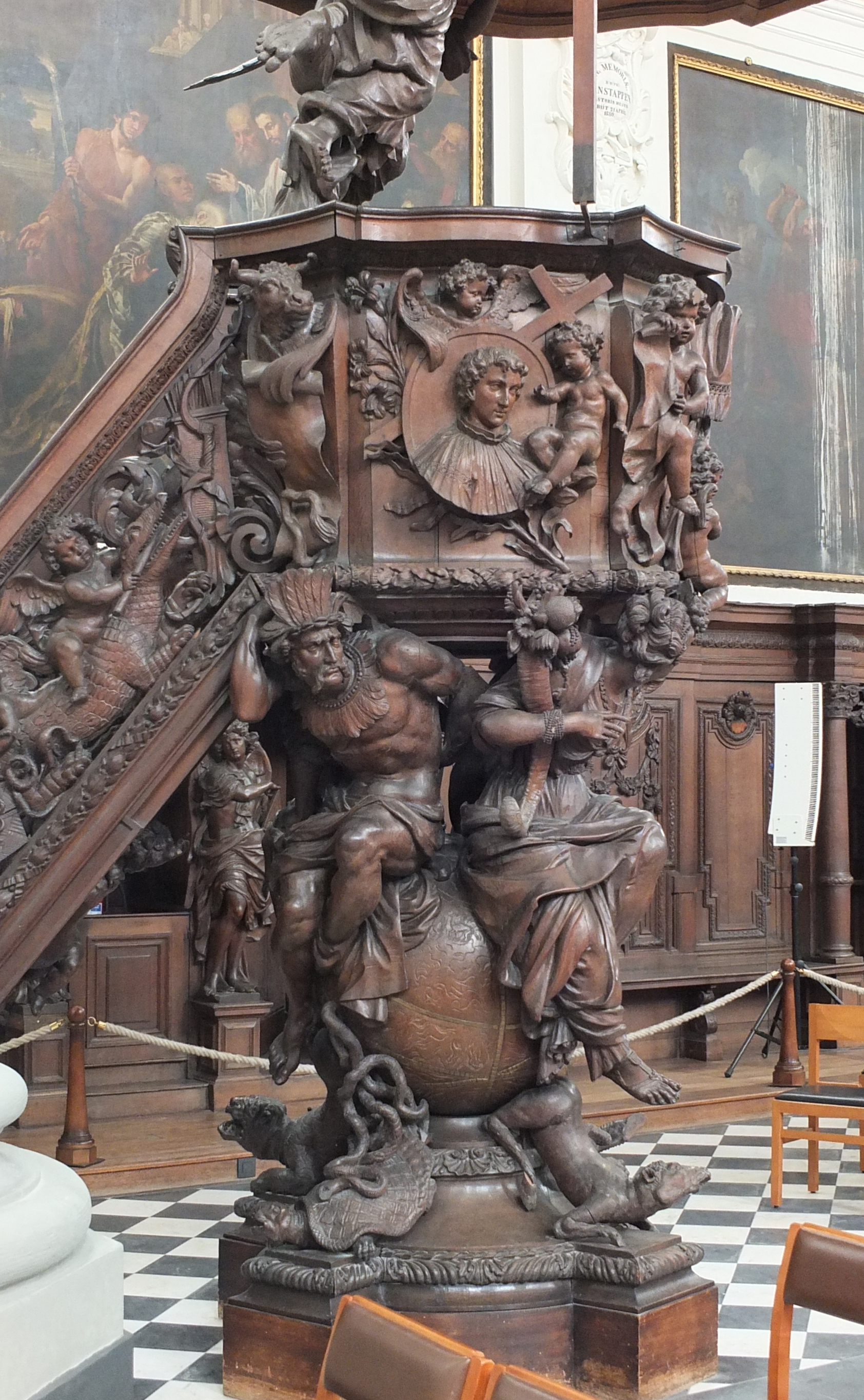 The Sint-Pieters- en Pauluskerk (Saint peter's and Paul's Church) is a former Jesuit Church in Mechelen. The pulpit was sculpted by Hendrik Frans Verbruggen (April 30, 1654 in Antwerp – December 12, 1724, Antwerp). The pulpit rests on a globe carried by land animals; allegories for the four known continents are sitting on the globe: America: indian, tortoise and snake Europe : a young woman with cornucopia, a sceptre, a book and a hind Asia: a woman with turban and leopard Africa: a black man covered in elephant skin and crocodile